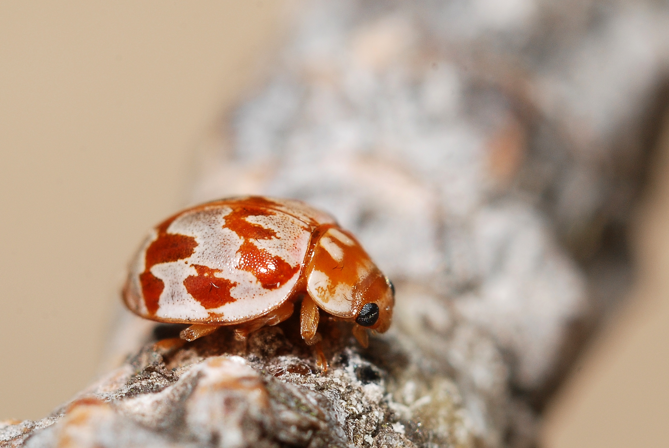 A quite light form of the ladybird Myrrha octodecimguttata from Spain